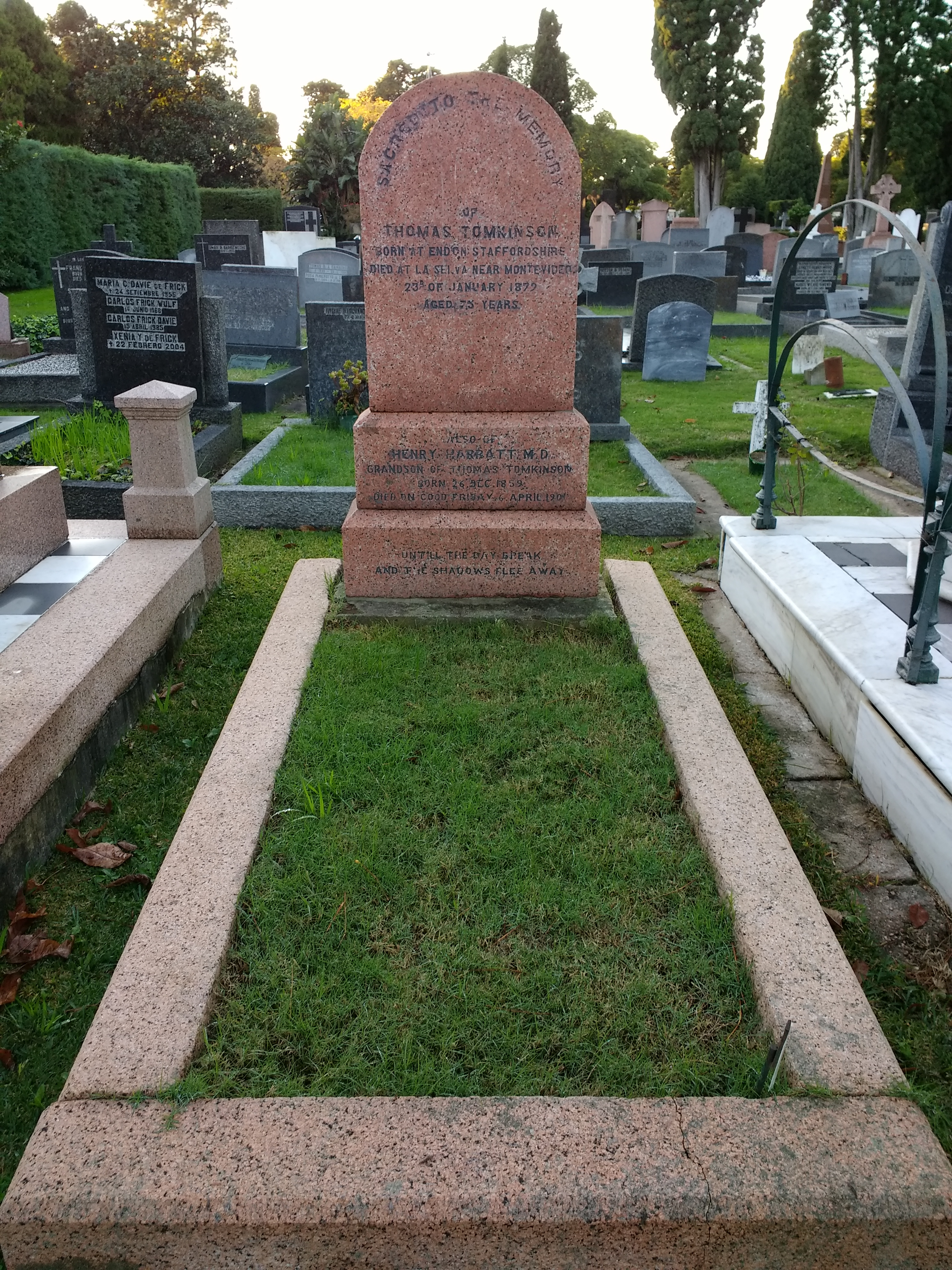 Grave of Thomas Tomkinson - British Cemetery Montevideo.